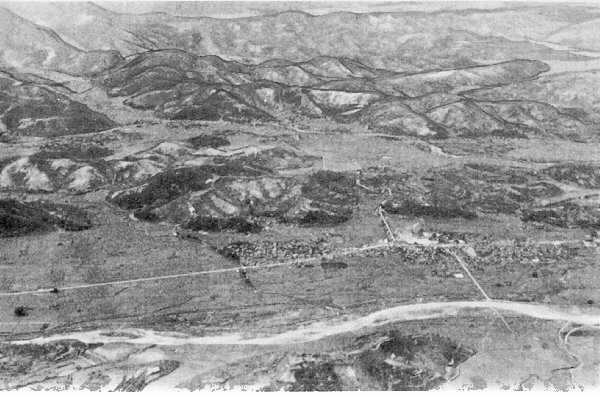 Aerial view of Haman, Korea in 1950. The town is in the center foreground; the 2nd Battalion, 24th Regiment position is on the crese of the second ridge west of Haman.